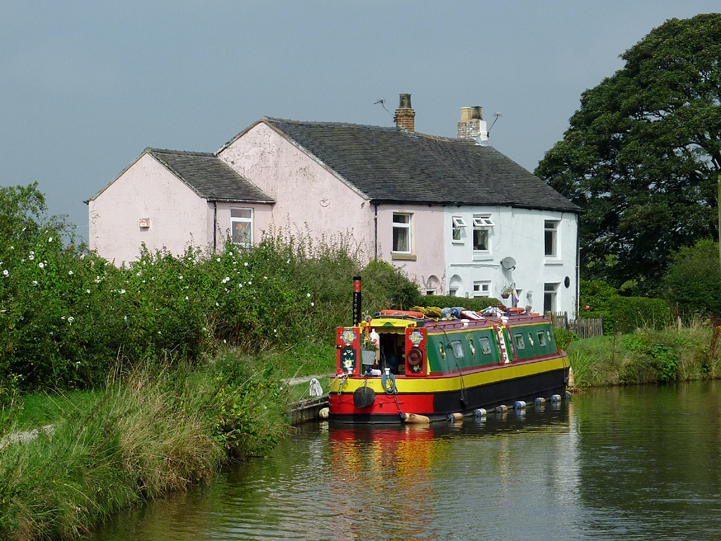 Cottage and narrowboat near Scholar Green, Cheshire